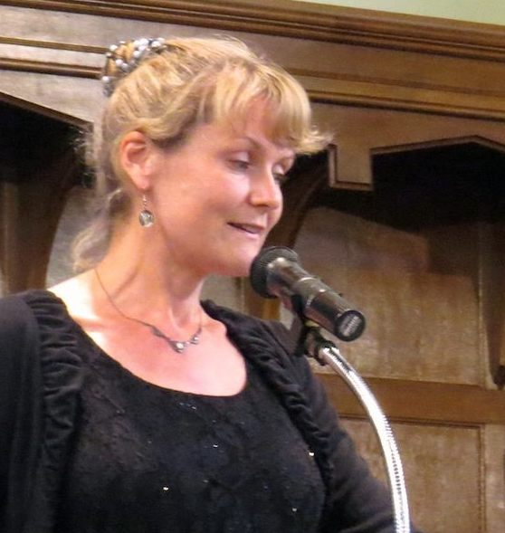 New Zealand poet Emma Neale, pictured at a poetry reading at Knox Church, Dunedin, March 2016.